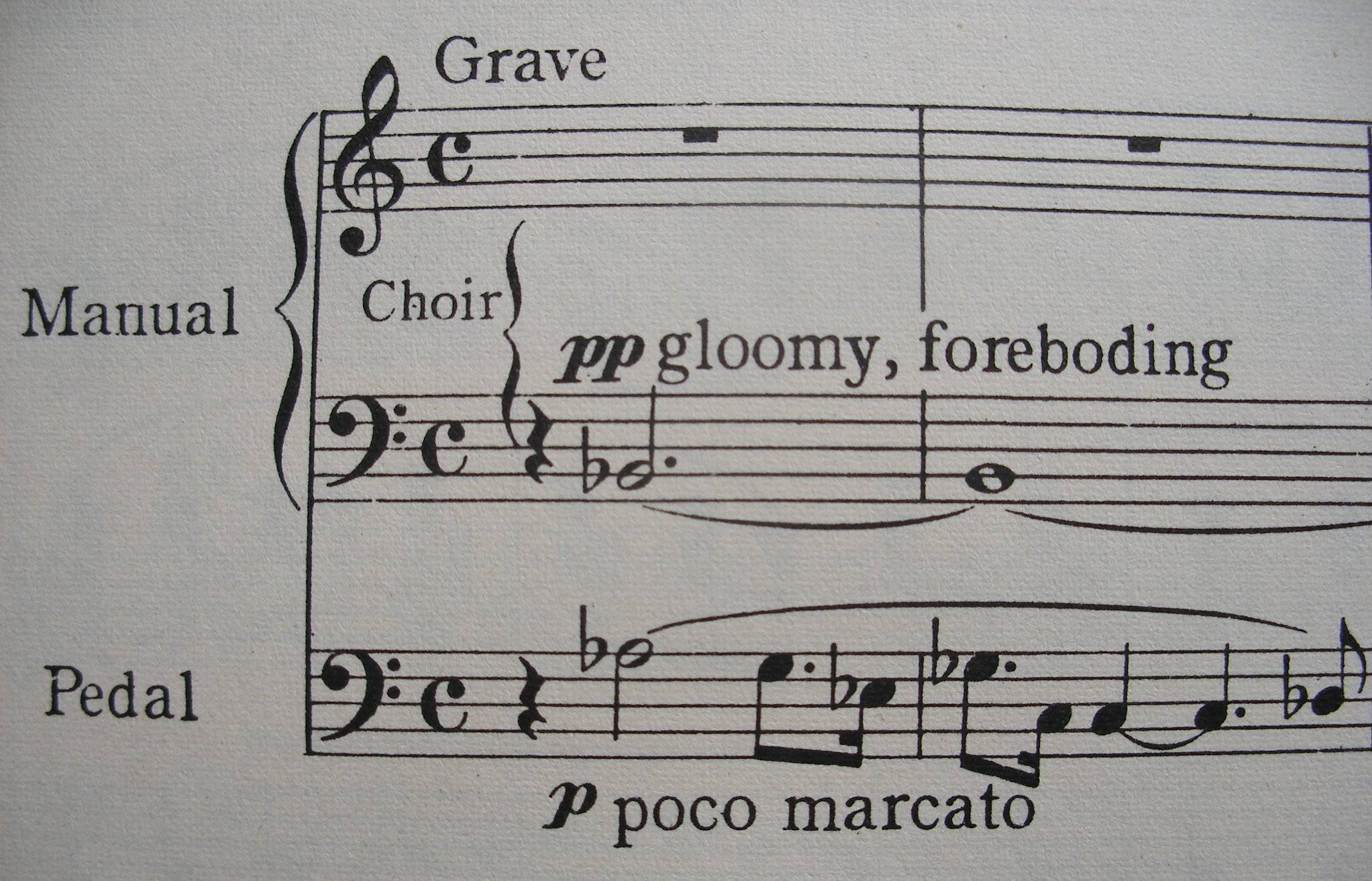 Music example from Julius Reubke's Sonata on the 94th Psalm, opening. The edition is Oxford University Press, edited by Herbert F. Ellingford, 1932.